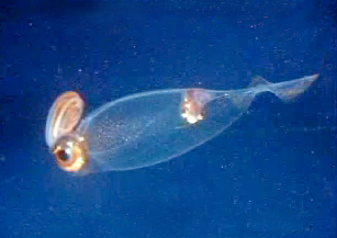 A bathyscaphoid squid (Teuthowenia megalops) swimming in the "cockatoo" posture. The animal rotates around the spindle-shaped digestive gland, which it keeps vertical regardless of the orientation of the mantle and head. (edited out text)